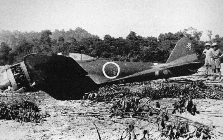 Wreck of a Japanese Army Air Force Nakajima Ki-43 Hayabusa plane (Allied code name "Oscar") in the Southwest Pacific in 1943.